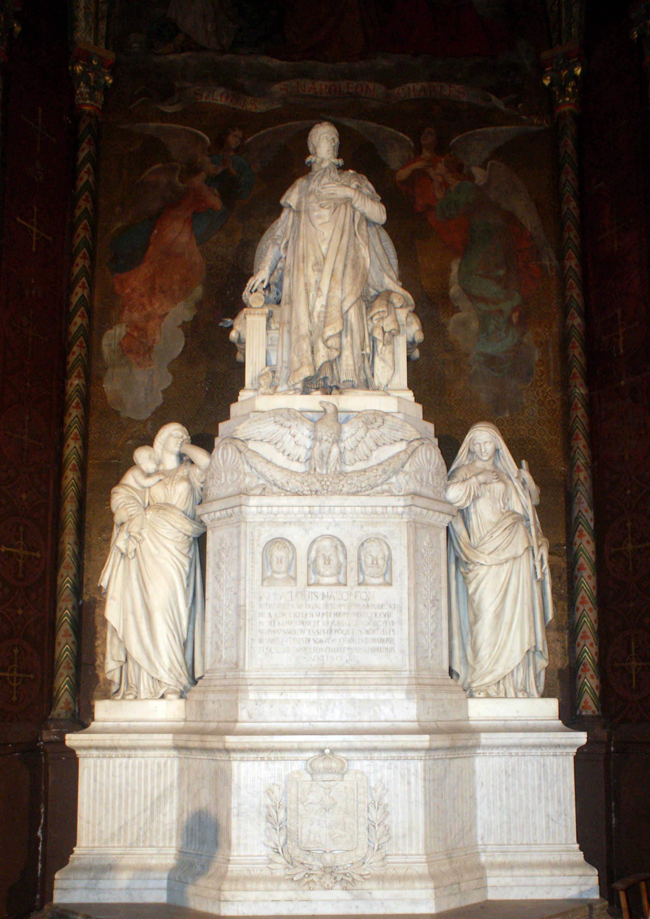 Tomb of Louis Napoleon, King of Holland, by Louis Petitot, Saint-Leu-la-Forêt, France.